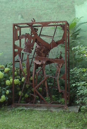 Statue: István Drozsnyik: The Ladder Remains Always. Miskolc, Hungary.